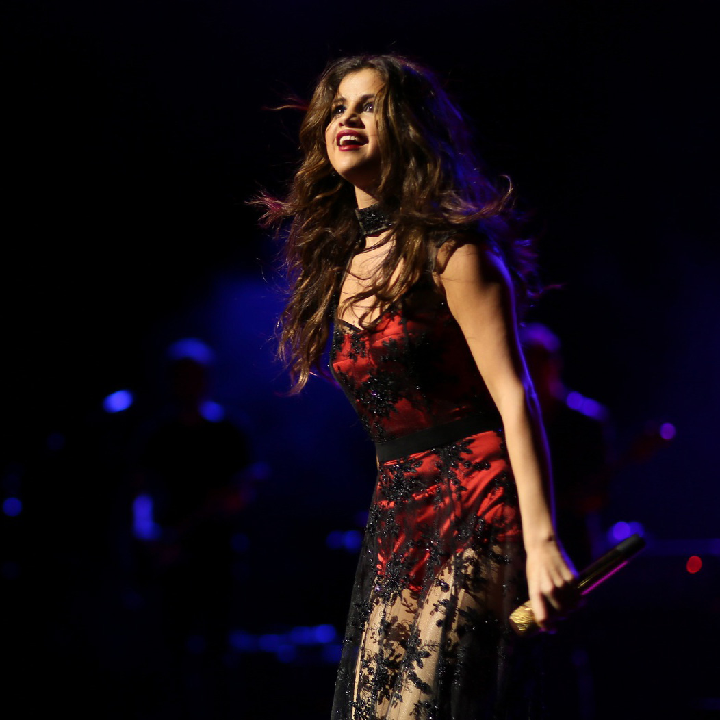 Gomez in December 2013